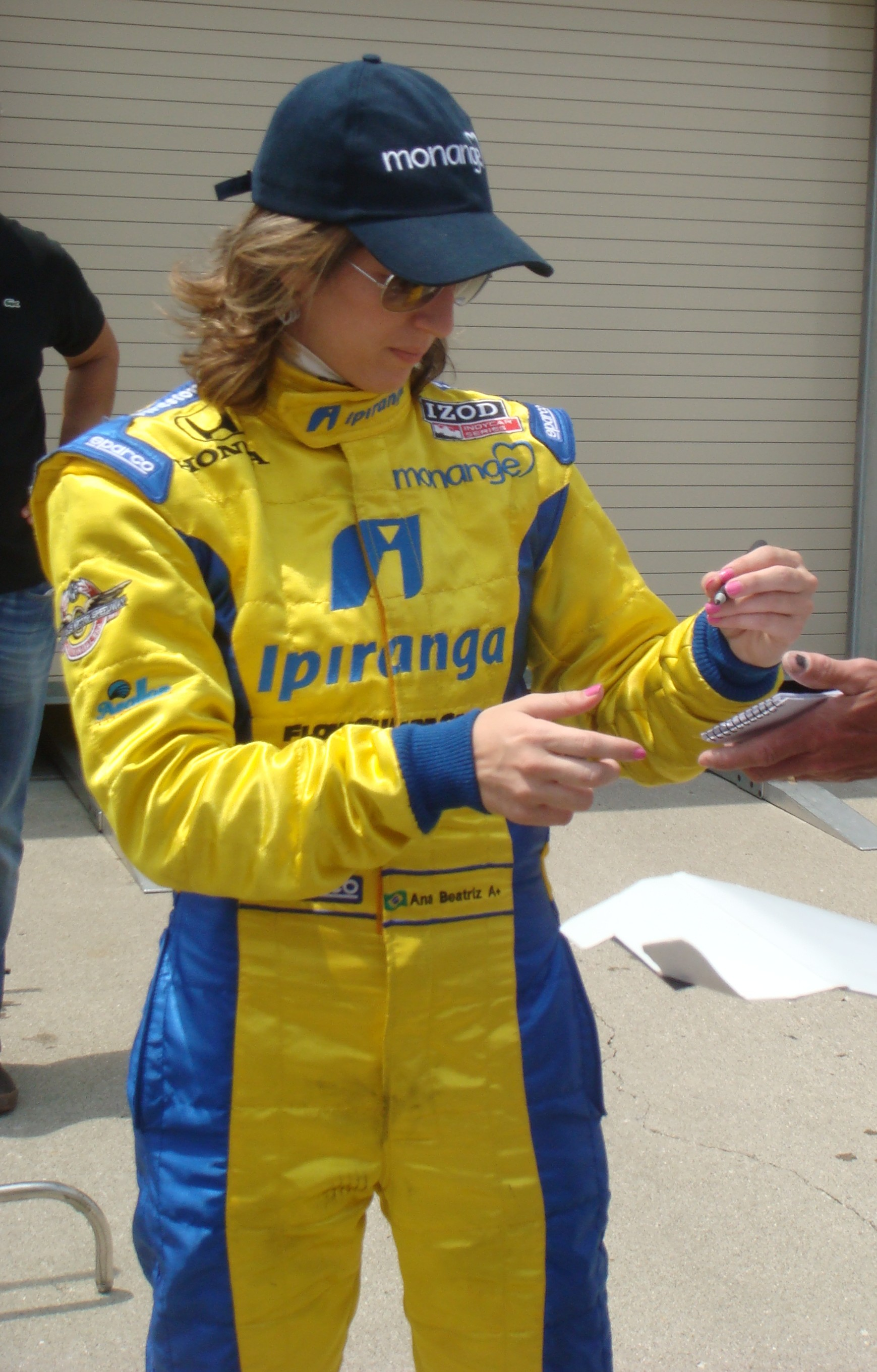 Ana Beatriz signs autographs for fans in the garage area of the Indianapolis Motor Speedway on Bump Day of the 2010 Indianapolis 500 qualifications.